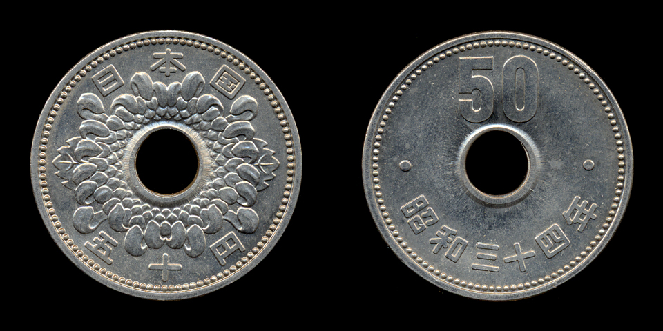 50yen-S34(current coin)